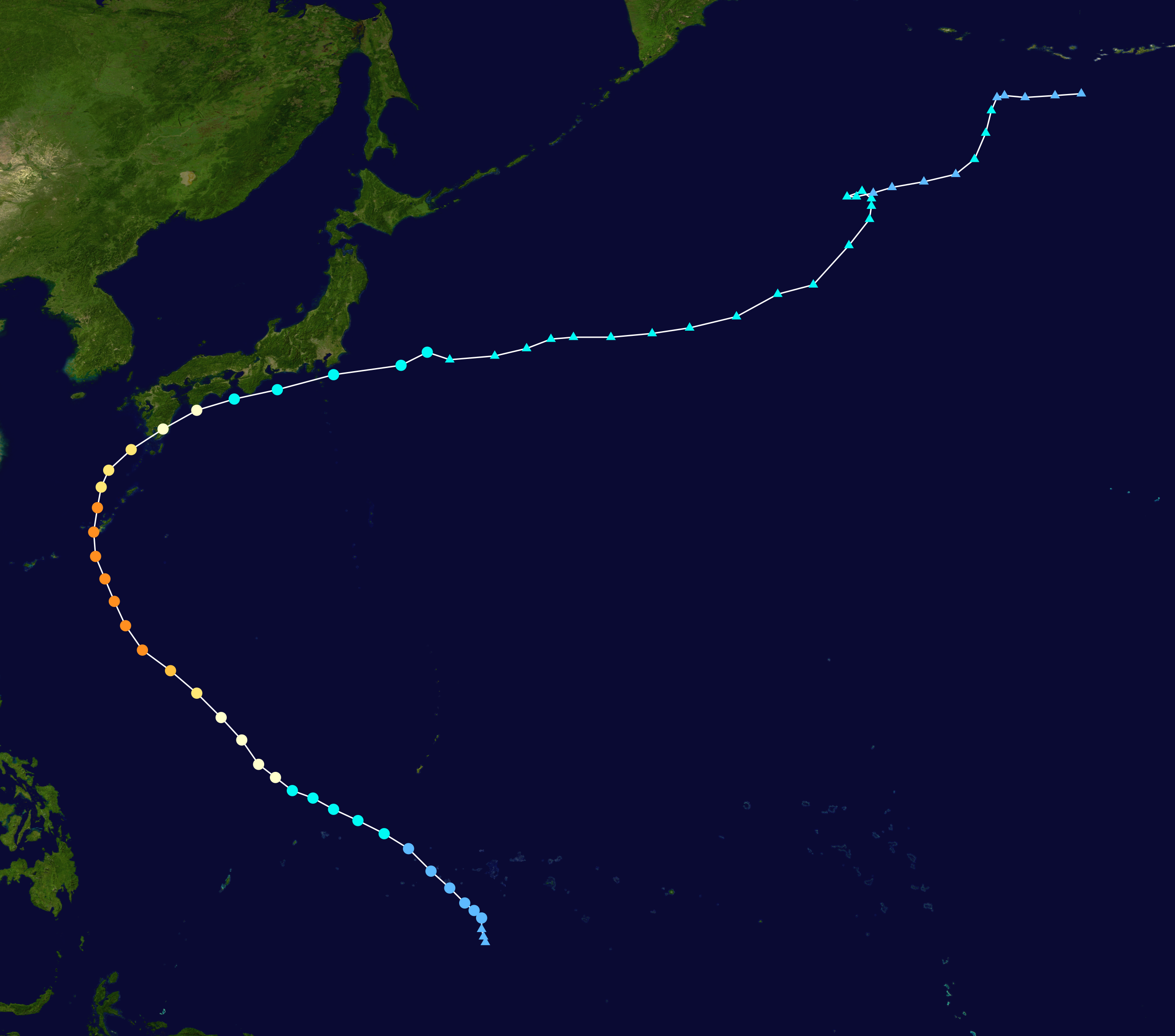 Track map of Typhoon Man-yi of the 2007 Pacific typhoon season. The points show the location of the storm at 6-hour intervals. The colour represents the storm's maximum sustained wind speeds as classified in the Saffir–Simpson scale (see below), and the shape of the data points represent the nature of the storm, according to the legend below. Saffir–Simpson scale Tropical depression≤38 mph≤62 km/h Category 3111–129 mph178–208 km/h Tropical storm39–73 mph63–118 km/h Category 4130–156 mph209–251 km/h Category 174–95 mph119–153 km/h Category 5≥157 mph≥252 km/h Category 296–110 mph154–177 km/h Unknown Storm type Tropical cyclone Subtropical cyclone Extratropical cyclone / Remnant low / Tropical disturbance / Monsoon depression